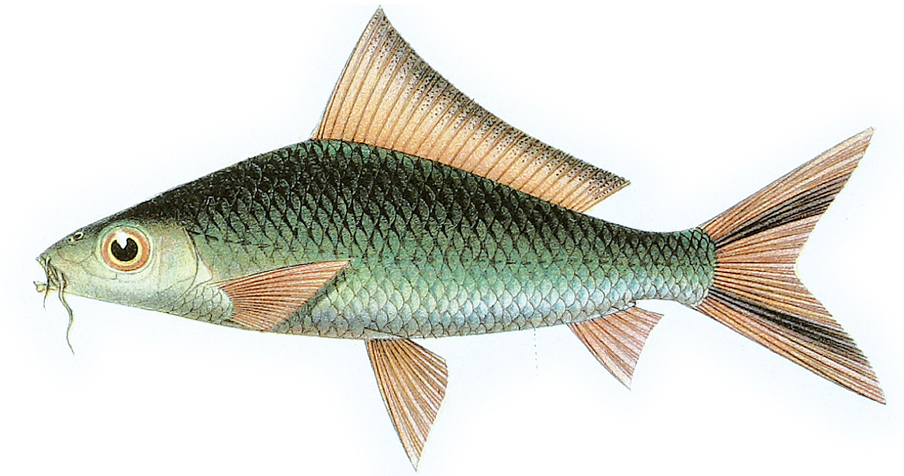 Labiobarbus festivus, described in the original publication as Dangila festiva